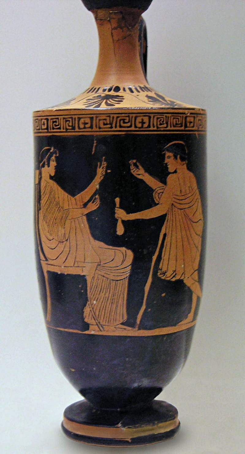 An hetaera and her client. Attic red-figured lekythos by the Painter of Athens 12778 (eponymous vase), ca. 460–450 BC. Found in Eretria. National Archaeological Museum in Athens, 12778.